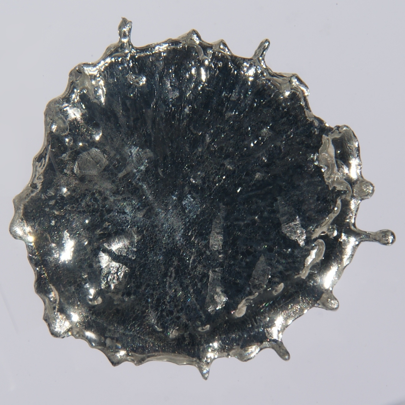 Tin is a very common metal. It is soft and has a low melting point, which makes it a very good workable material, that is used since ancient times. Bronze is usually an alloy of copper and tin. The common β-tin can transform into powdery α-tin at low temperatures (below 13°C, 56°F). This is known as tin pest, which destroys the affected item.